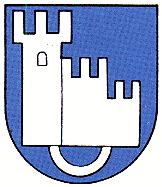 coat of arms city of Friburg (Switzerland)